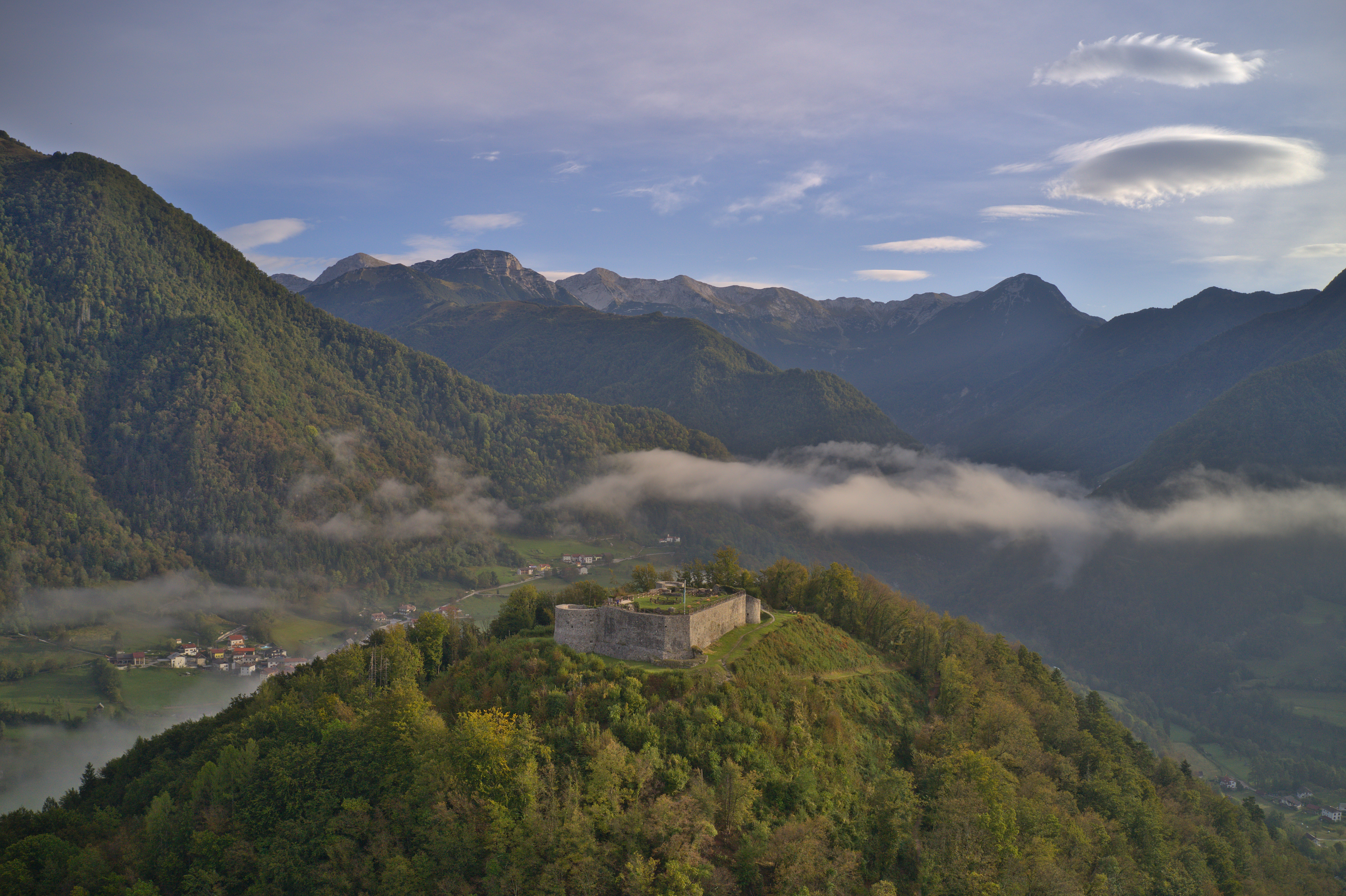 Ruins of Tolmin Castle from 12th century are situated on the ridge of Kozlov Rob above Tolmin, NW Slovenia.